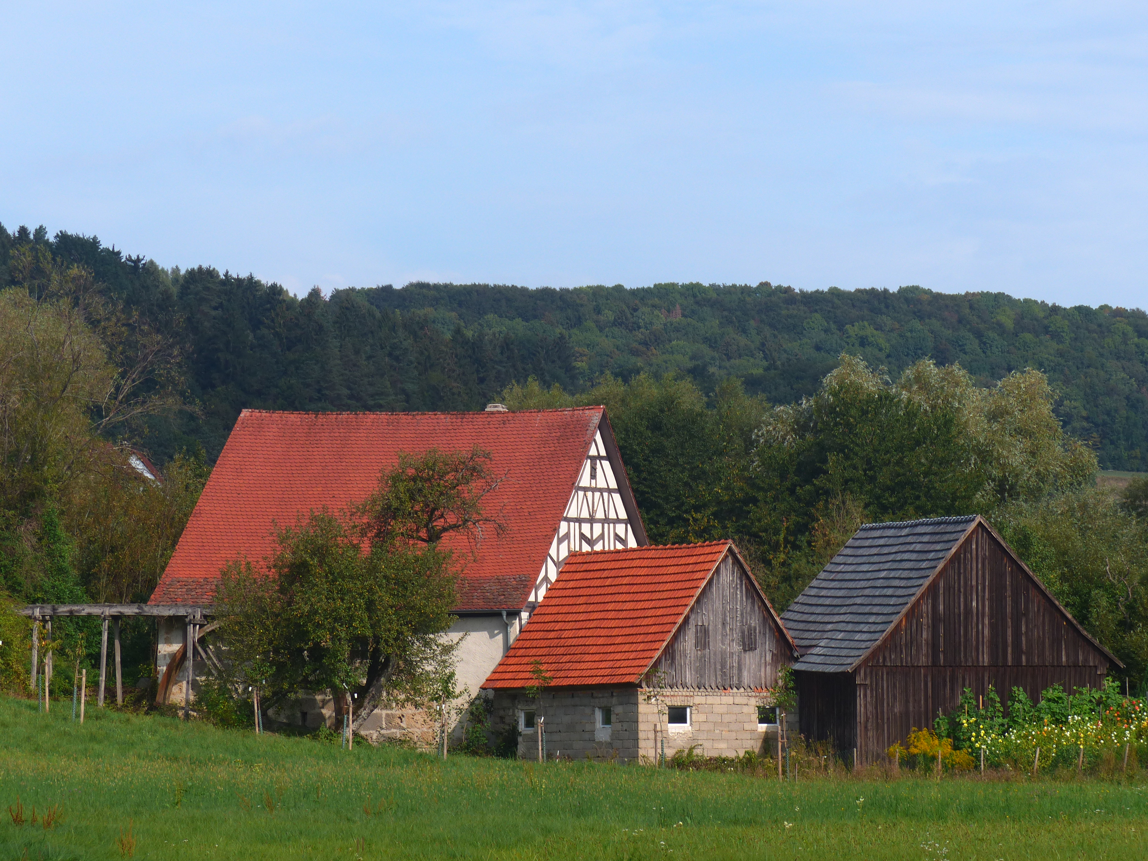 A watermill in the village Niedermirsberg, a district of the municipality of Ebermannstadt.